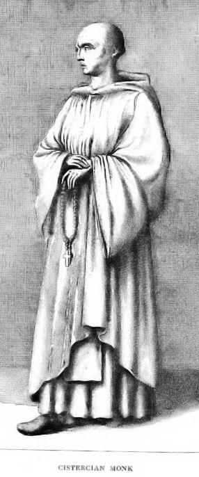 Published London